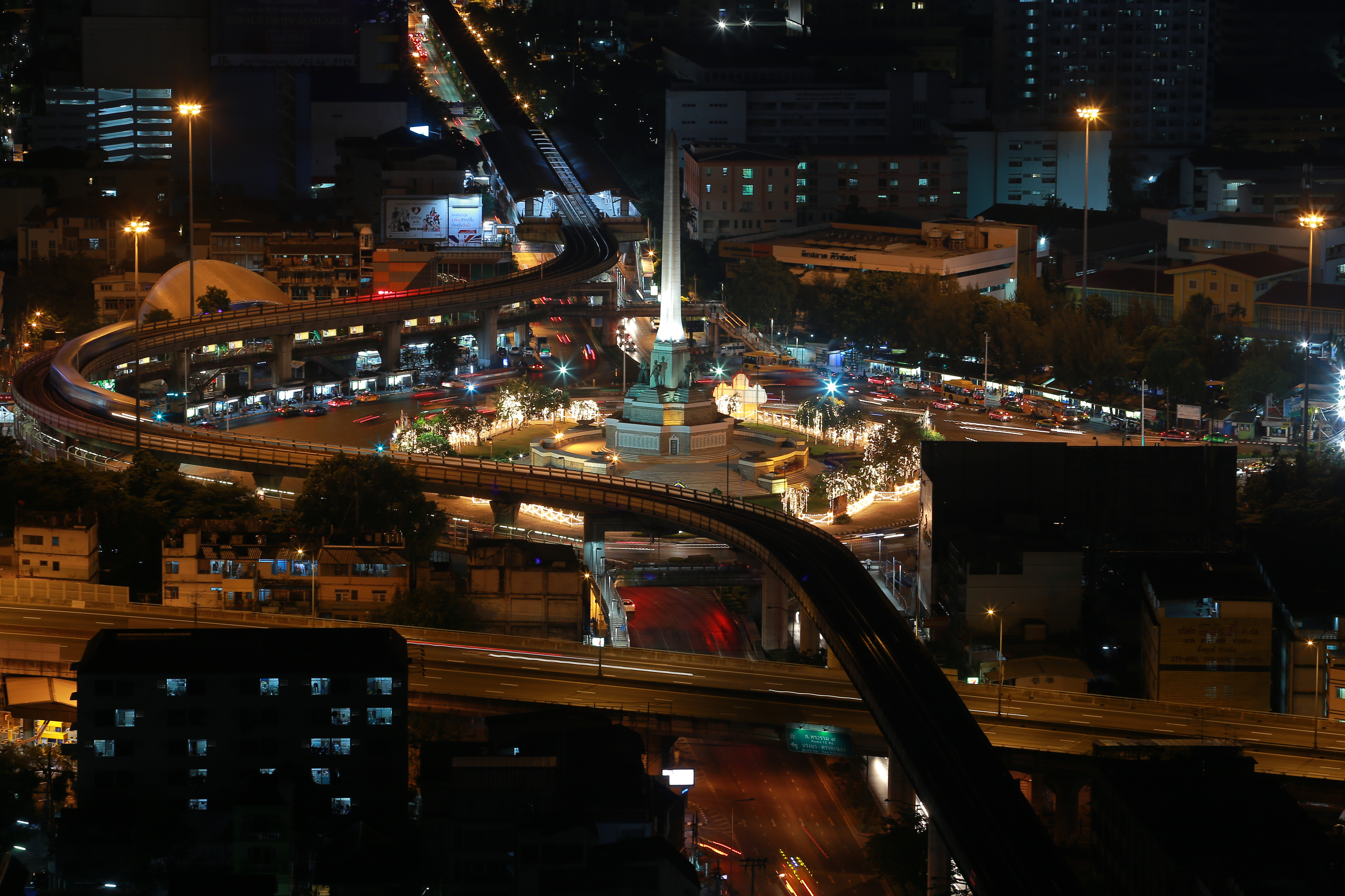 Victory Monument, Ratchathewi District, Bangkok